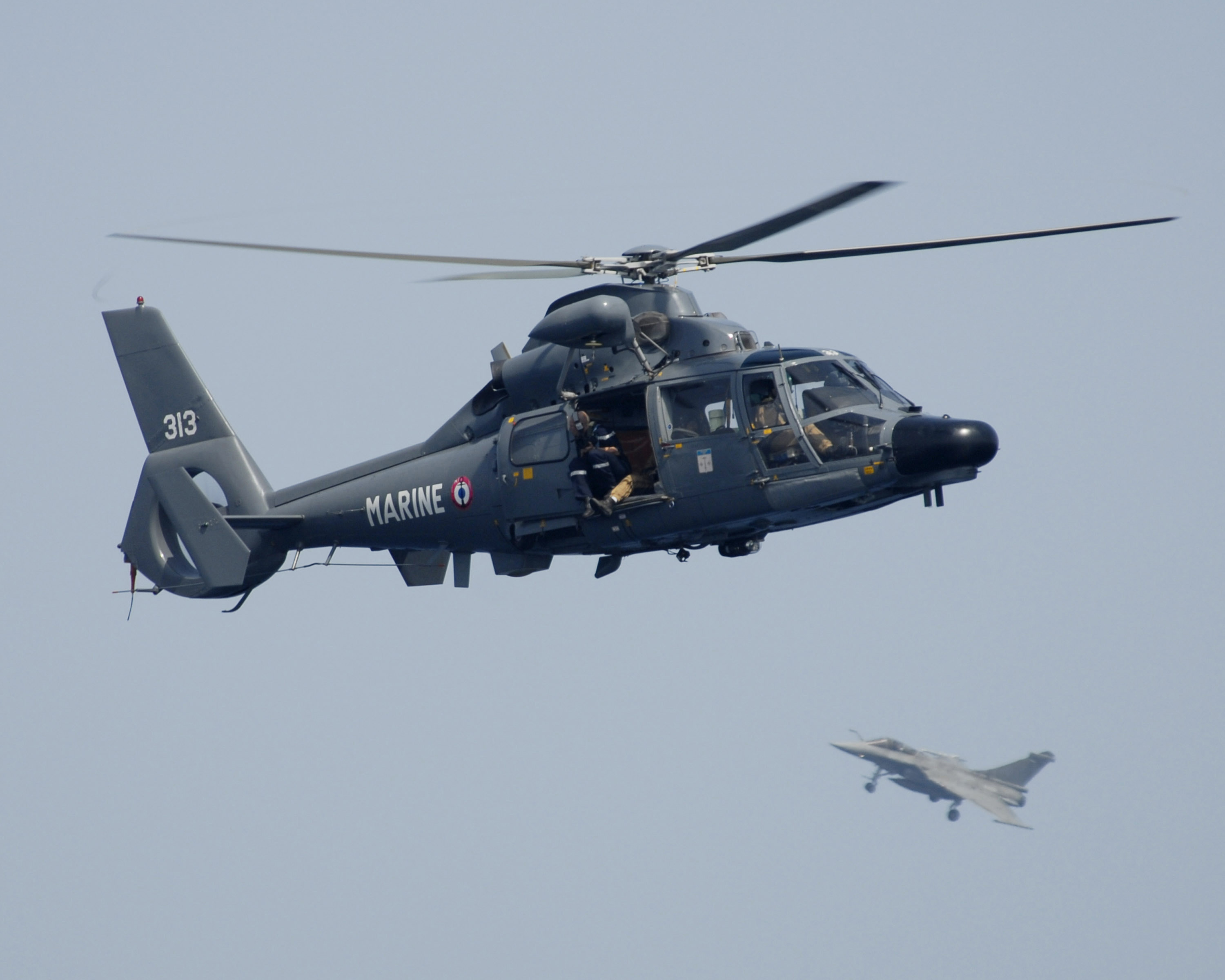 A French Dolphin 35F helicopter from the nuclear-powered aircraft carrier French navy ship Charles de Gaulle (R 91) hovers over the flight deck of the Nimitz-class aircraft carrier USS John C. Stennis (CVN 74) April 12, 2007. Stennis, as part of the John C. Stennis Carrier Strike Group, and Charles de Gaulle, the flagship of Commander, Task Force 473, are in the North Arabian Sea conducting bilateral exercises and supporting multi-national ground forces in Afghanistan. (U.S. Navy photo by Mass Communica tion Specialist 1st Class Denny Cantrell) (Released) (Released to Public)